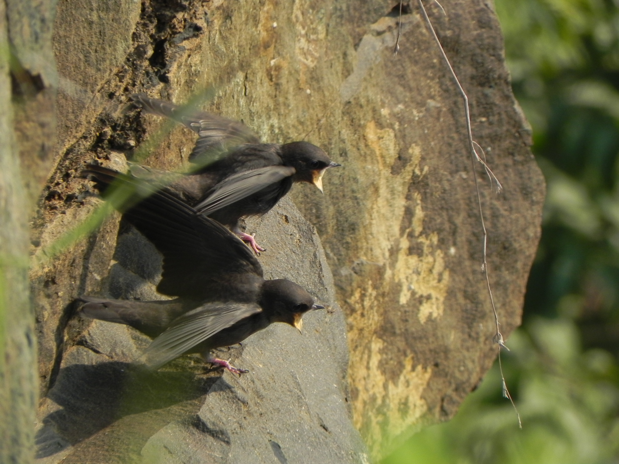 Dusky Crag Martin Ptyonoprogne concolor chicks at stone quarry, Kothrud, Pune, India